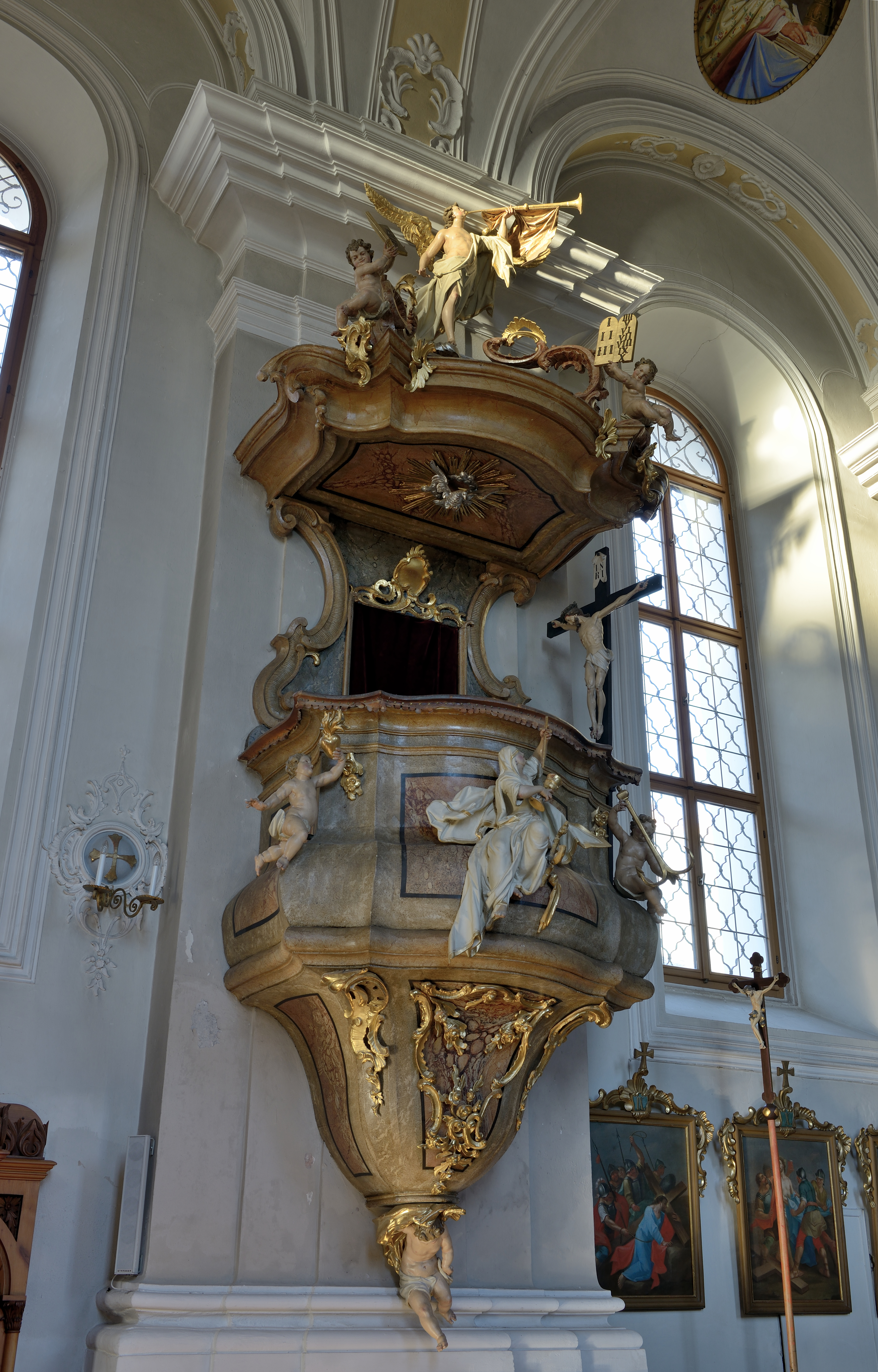 Rococo pulpit in the parish church of in St. Peter bei Lajen (Southtyrol)